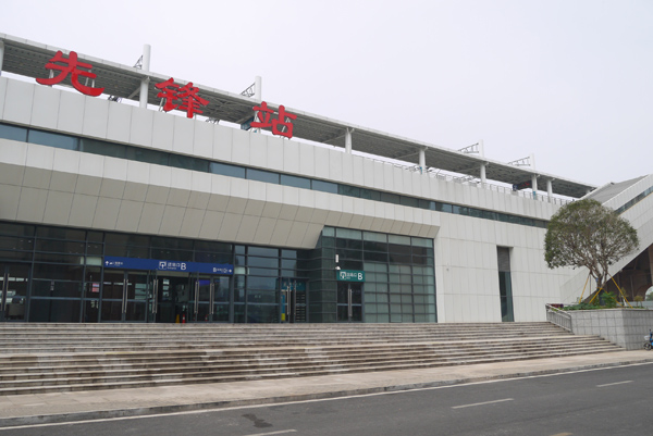 Xiangfeng Station